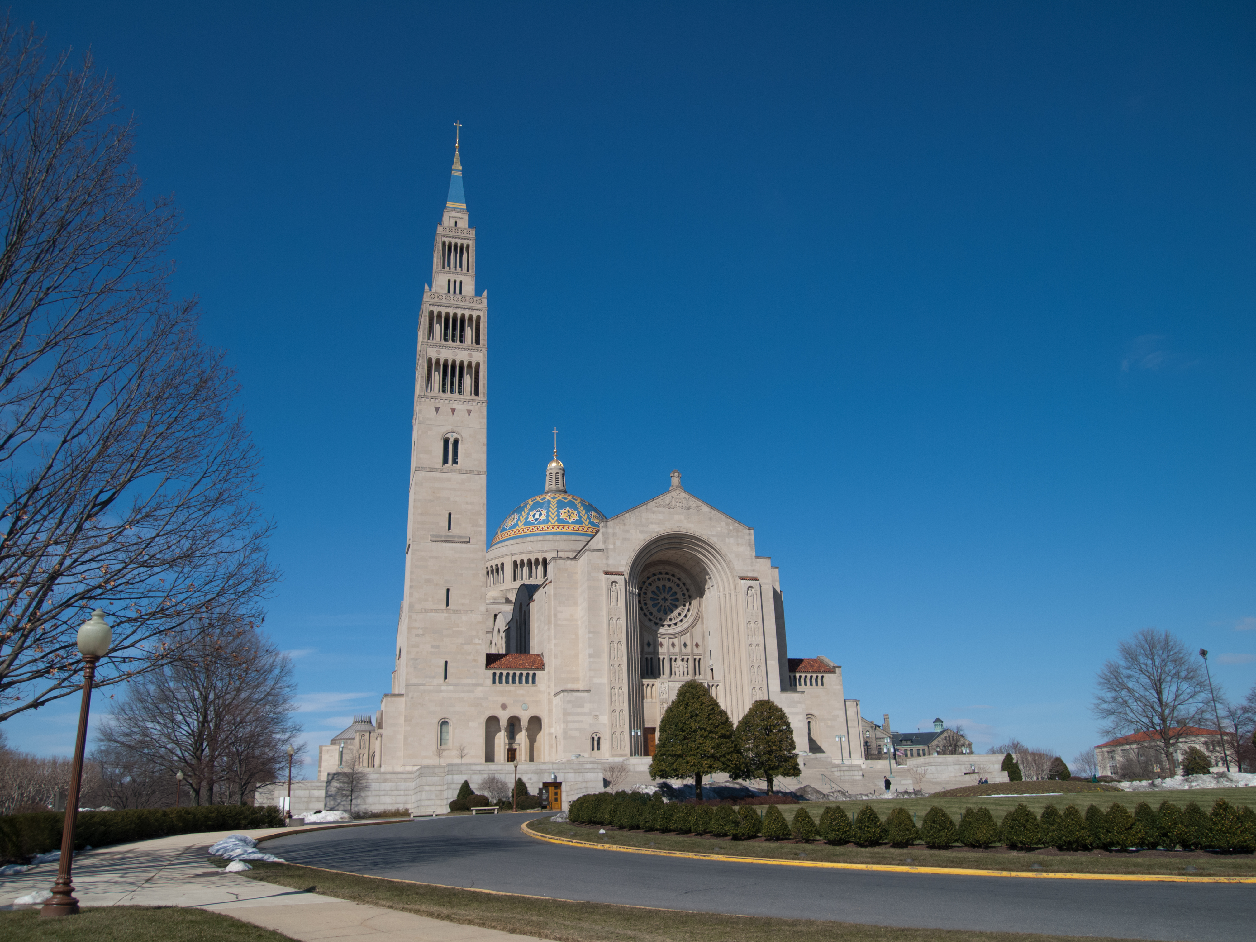 Basilica of the National Shrine of the Immaculate Conception, Washington, DC